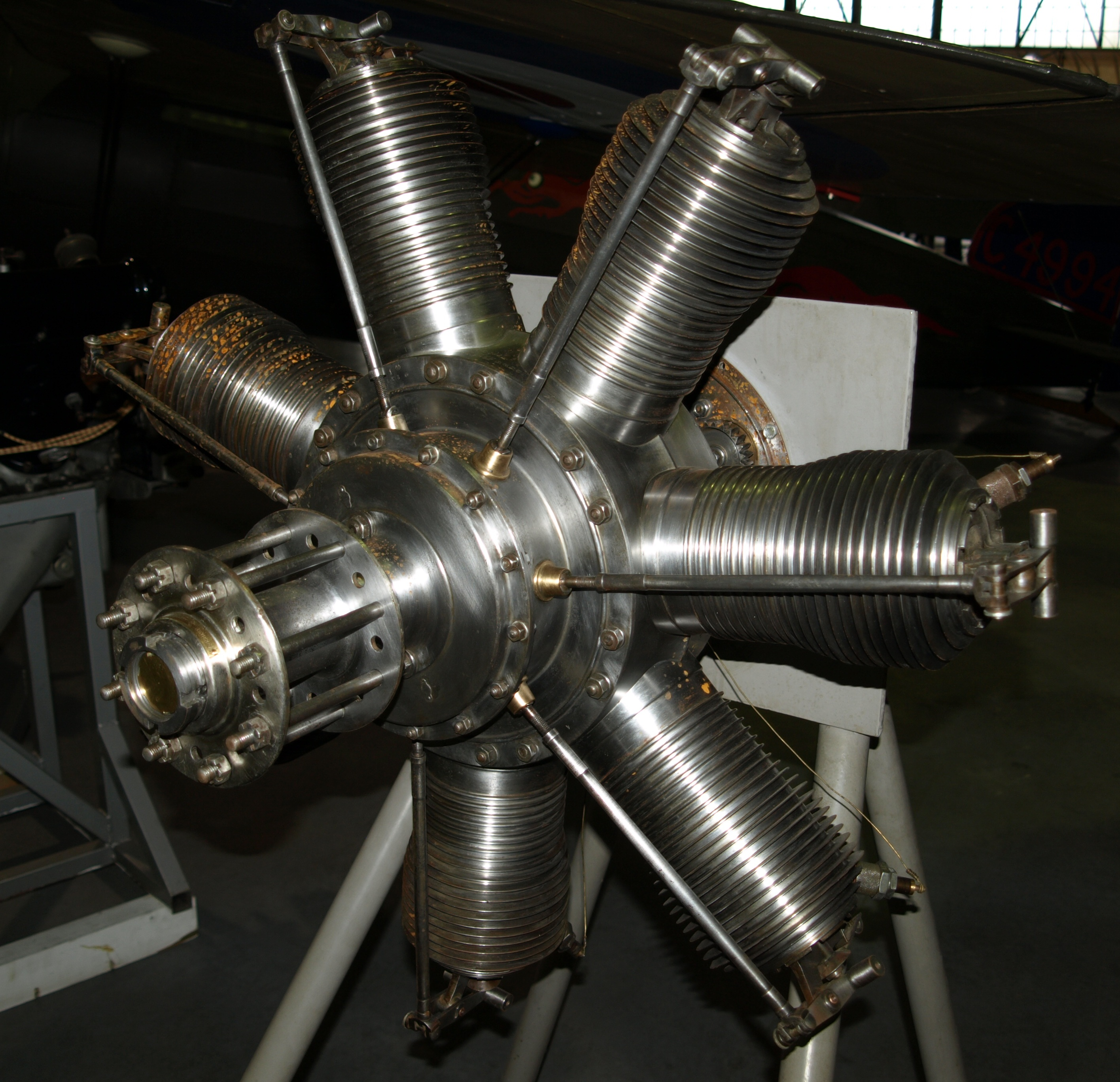 Gnome 7 Omega rotary aero engine on display at the Royal Air Force Museum, London.